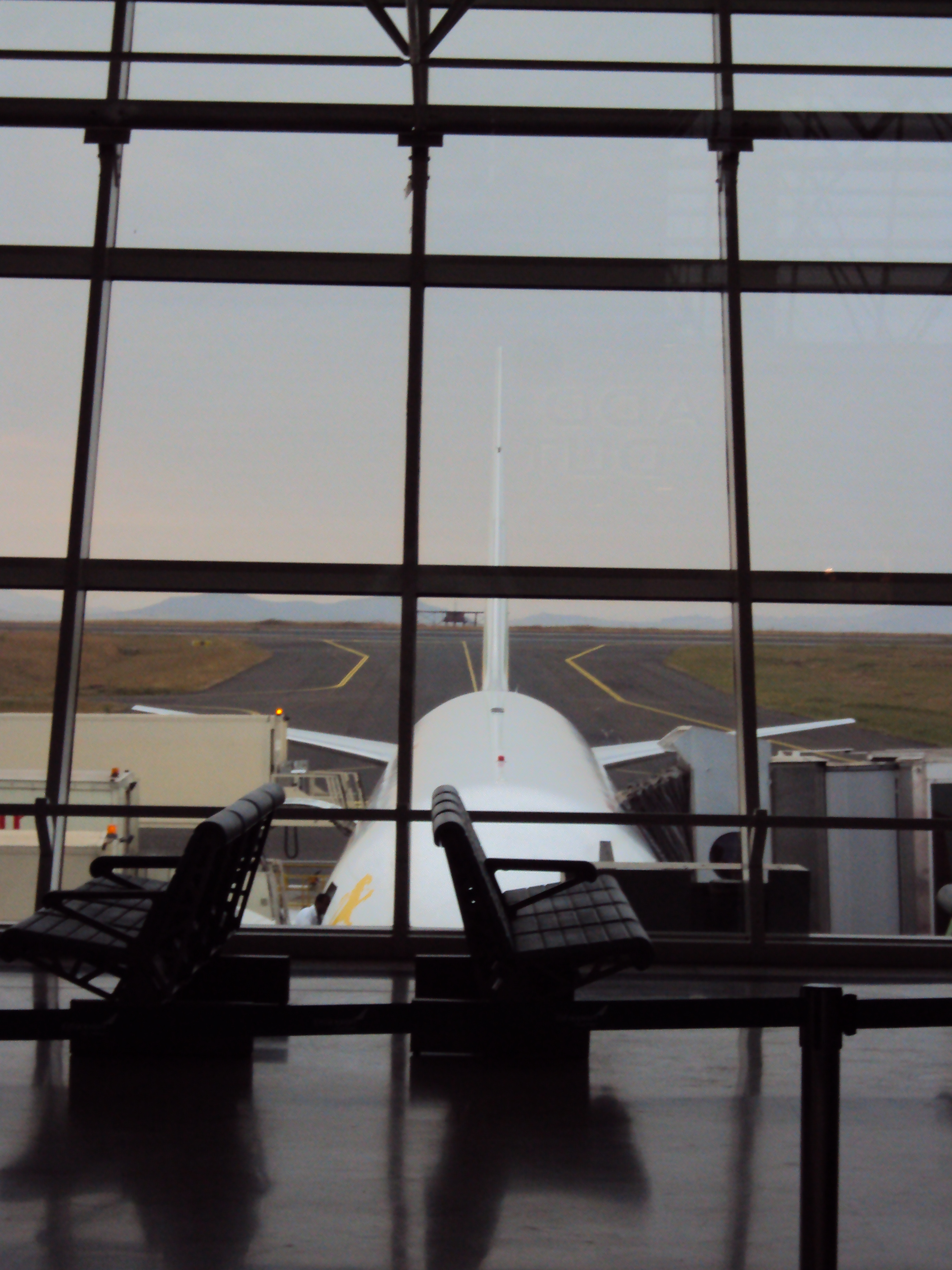 Bole International airport inside the boarding zone